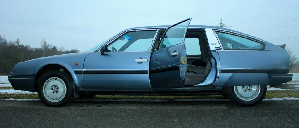 cx citroen prestige 2